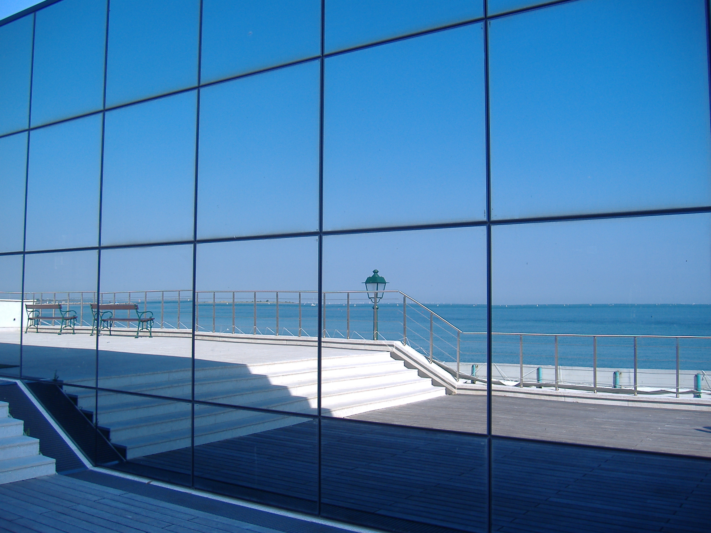 The sea mirrored by the Museum of Undrewater arheology. Grado, Italy.